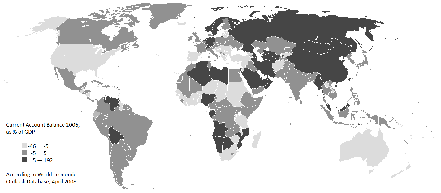 Current Account Balance 2006, as % GDP